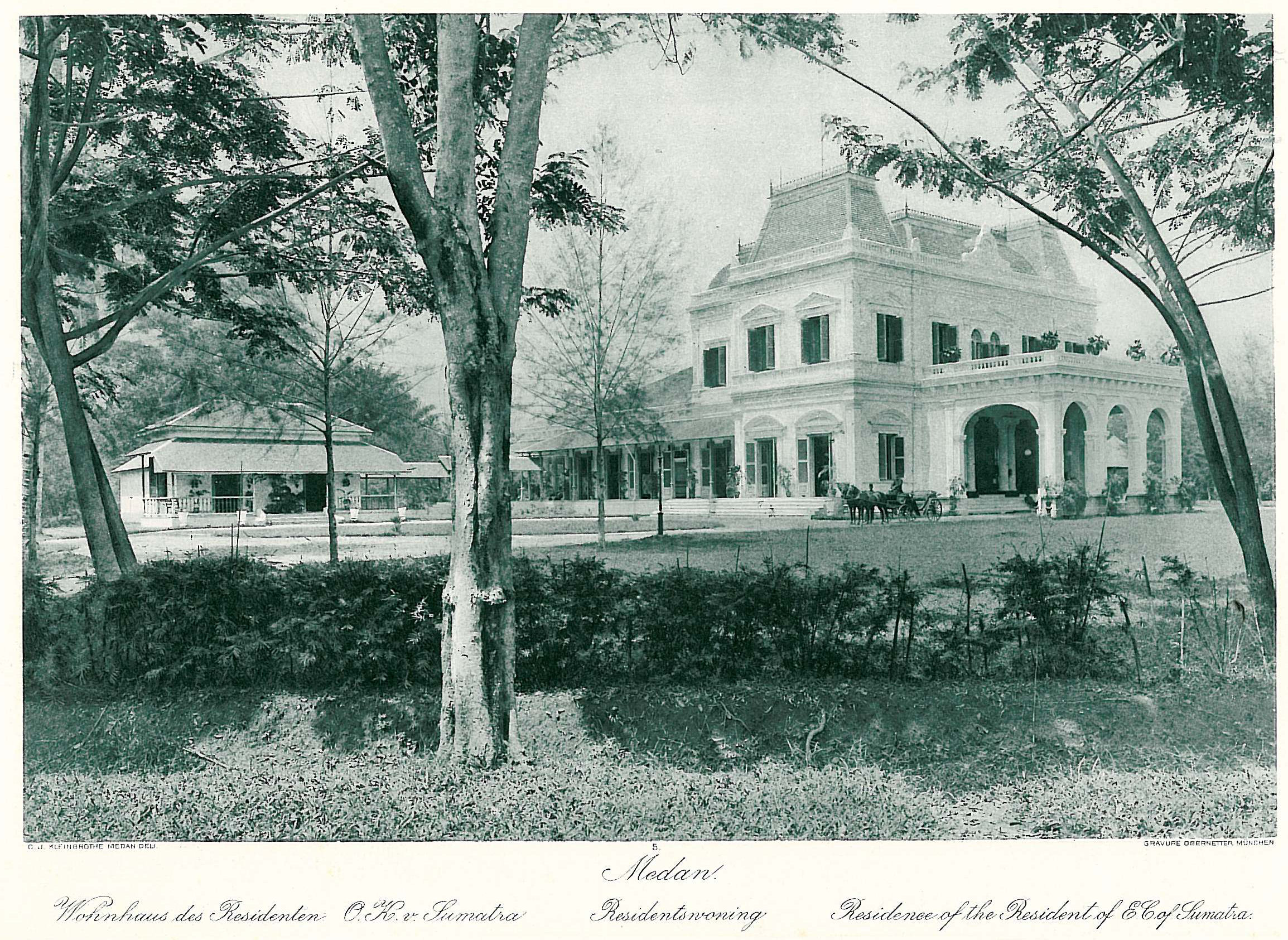 Historical postcard of Indonesia